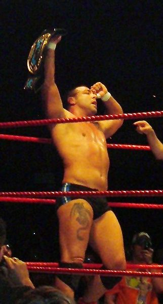 This is a picture I took at a WWE RAW House show in College Station on June 23, 2007. The picture shows Santino Marella holding up his WWE Intercontinental Championship belt after defeating Carlito for it.